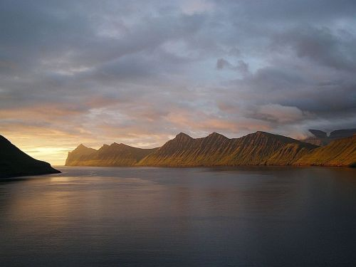 Kalsoy - Faroe Islands